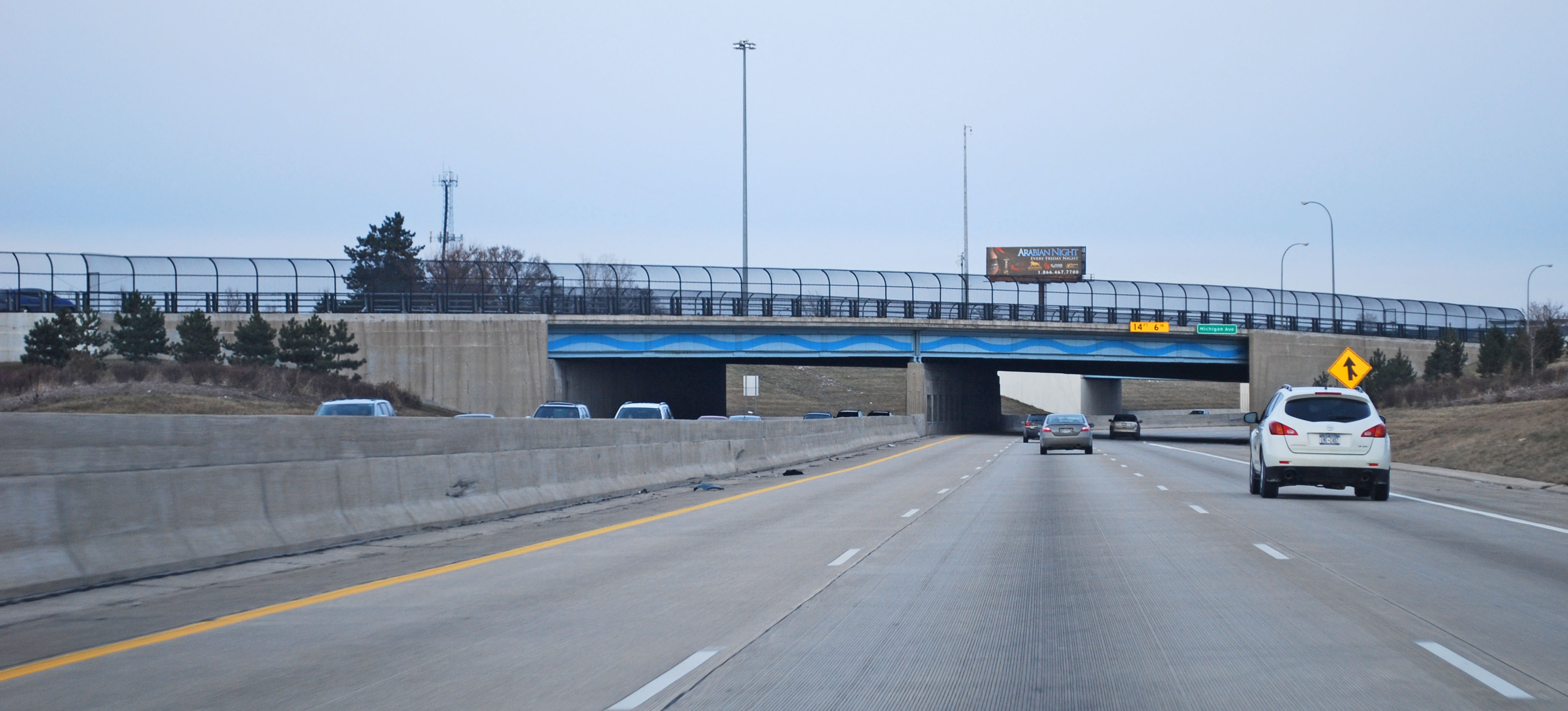 US12 bridge over I94